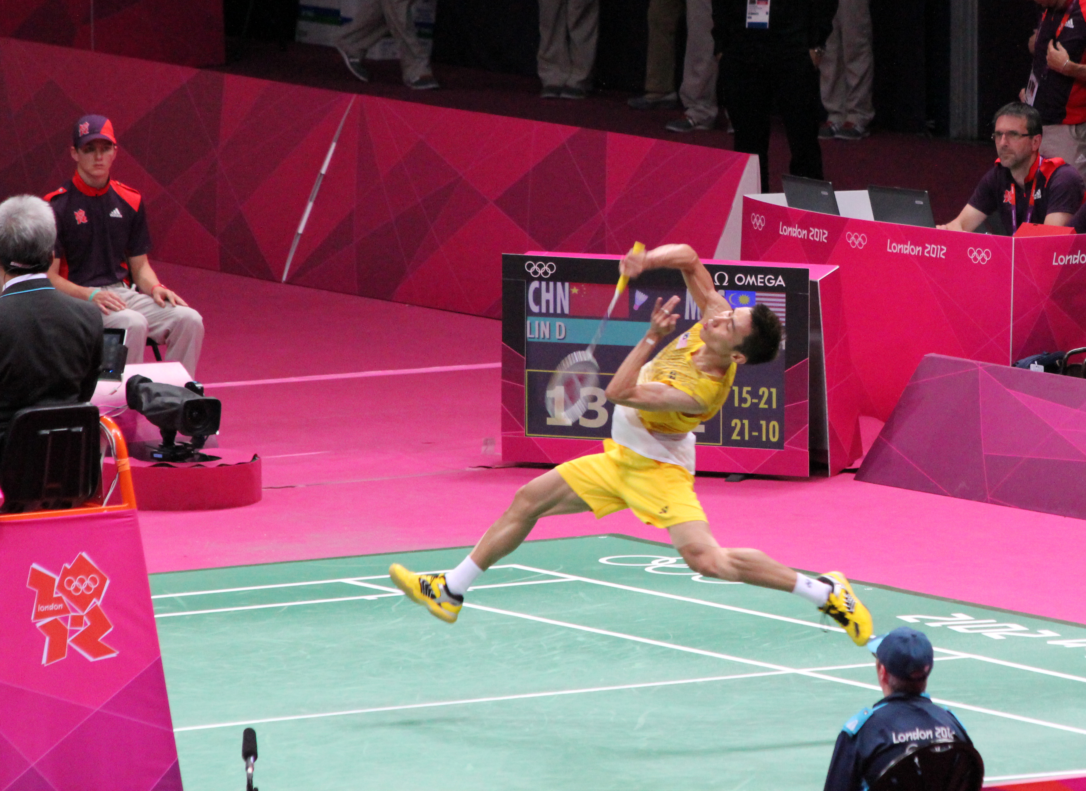 Mens badminton singles final between Lin Dan (China) and Lee Chong Wei (Malaysia) at the Wembley Arena, London 2012 Olympics